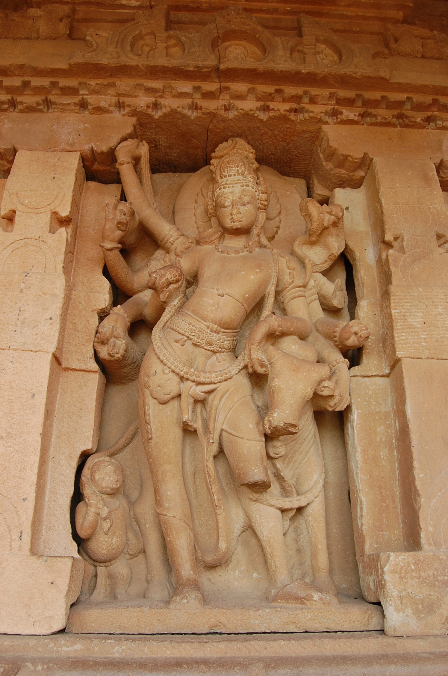 Aihole Temple